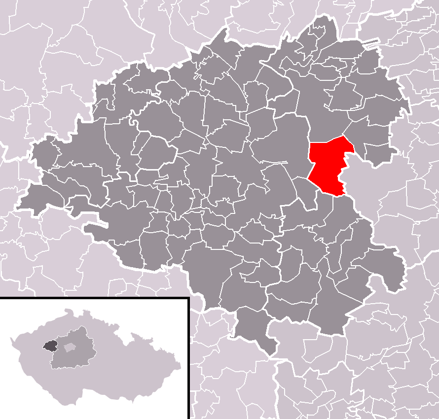 Location of Ruda municipality within Rakovník District and (identical) administrative area of Rakovník as a Municipality with Extended Competence.